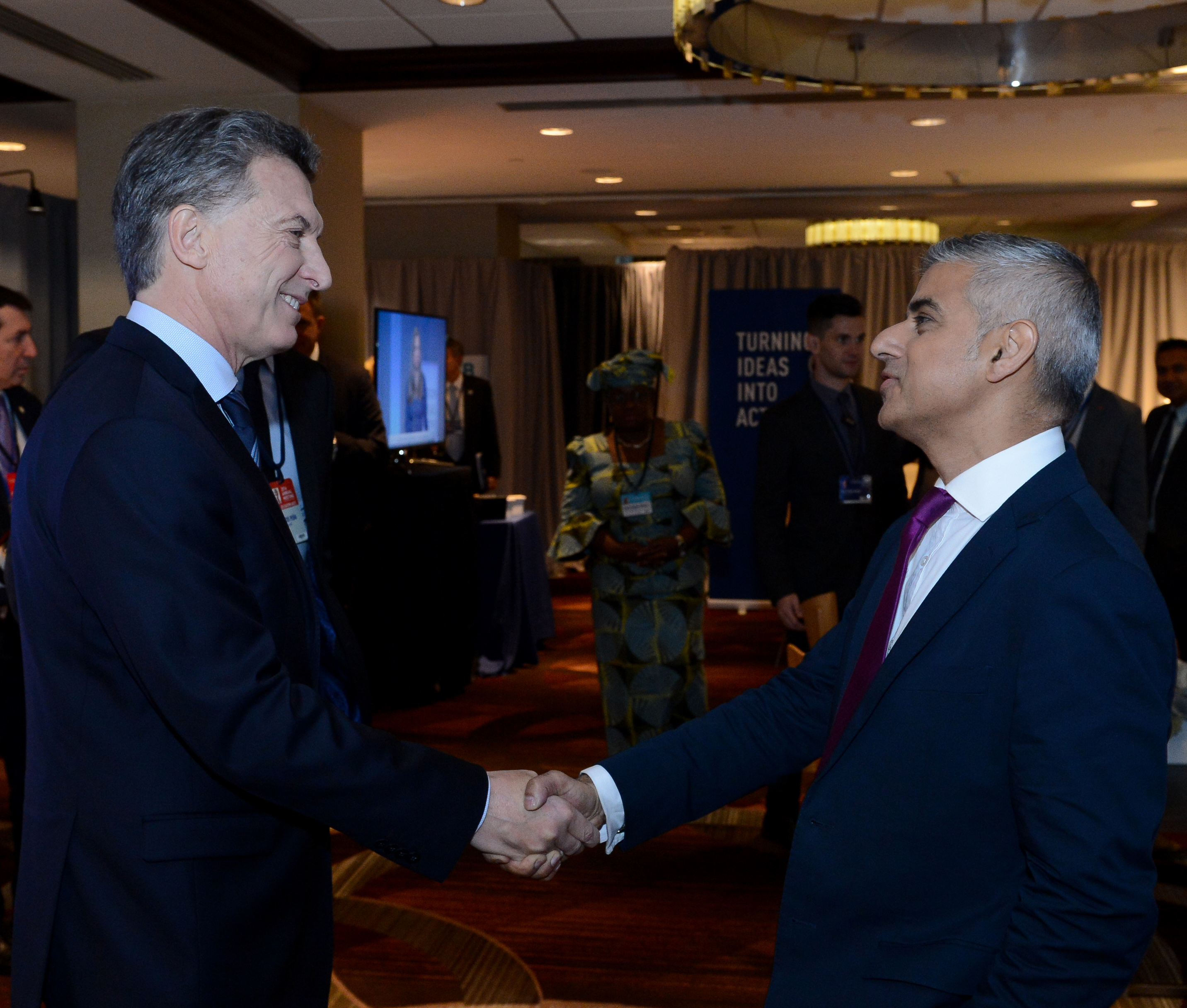 Argentina´s president Mauricio Macri with London Mayor Sadiq Khan.